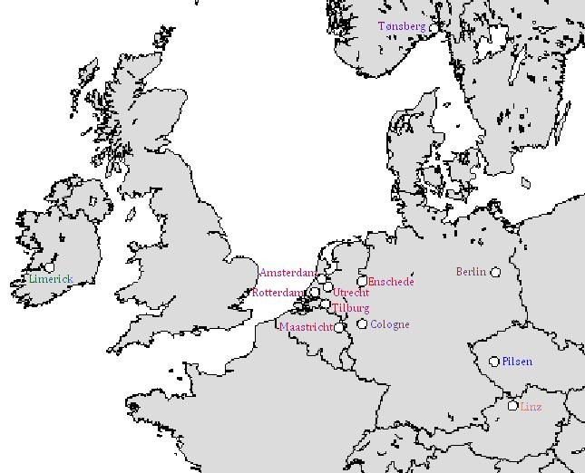 Map of the ISBTs of the world.